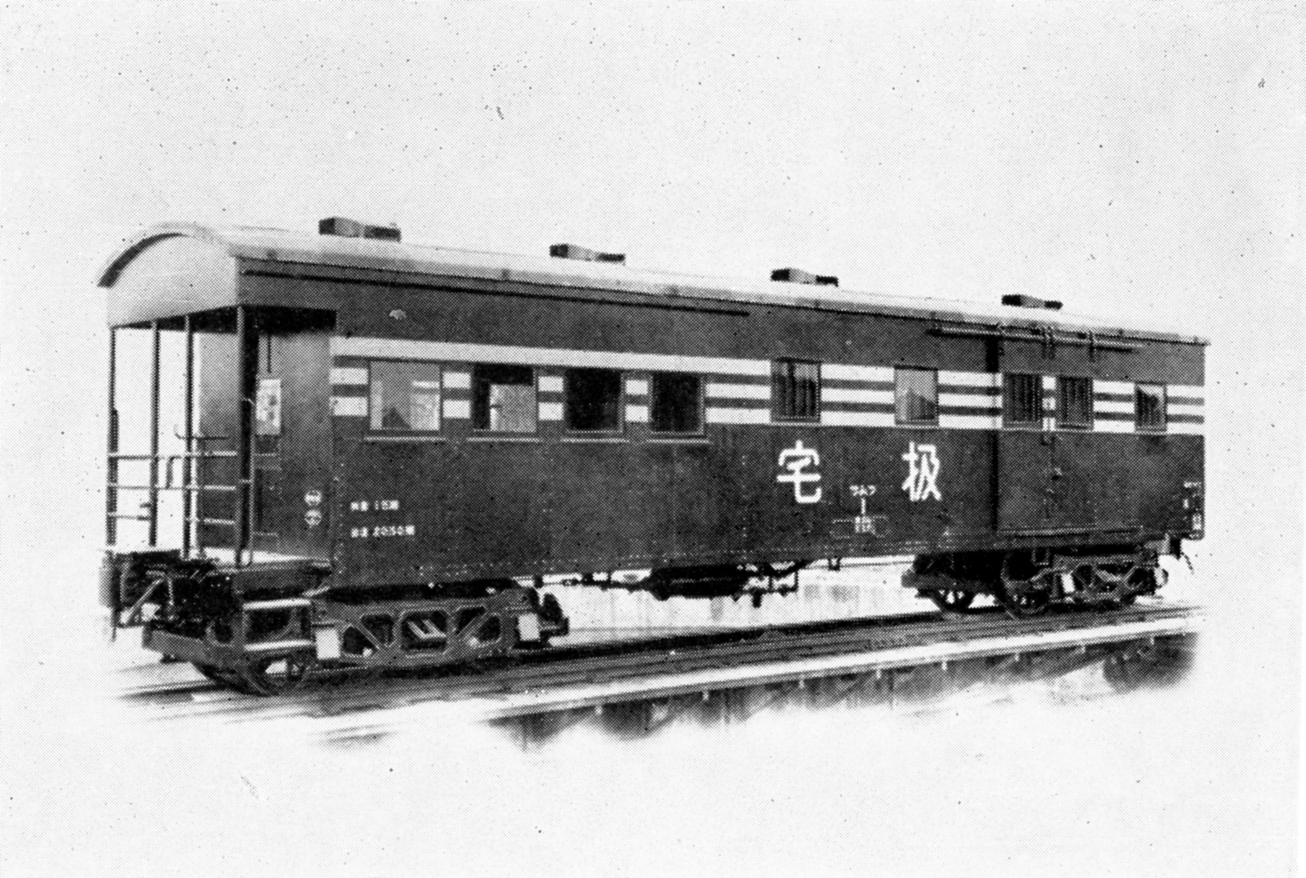 Photograph of JNR's Class Wamufu1 freight car